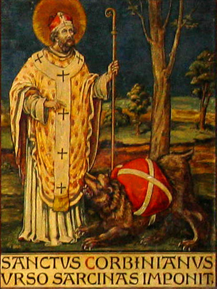 Depiction of St. Corbinian with his pack bear.